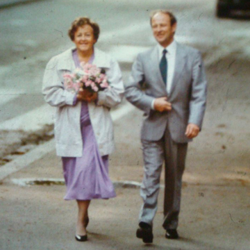 Mr and Mrs Grubich walking on the Krakow Planty city garden in 1985